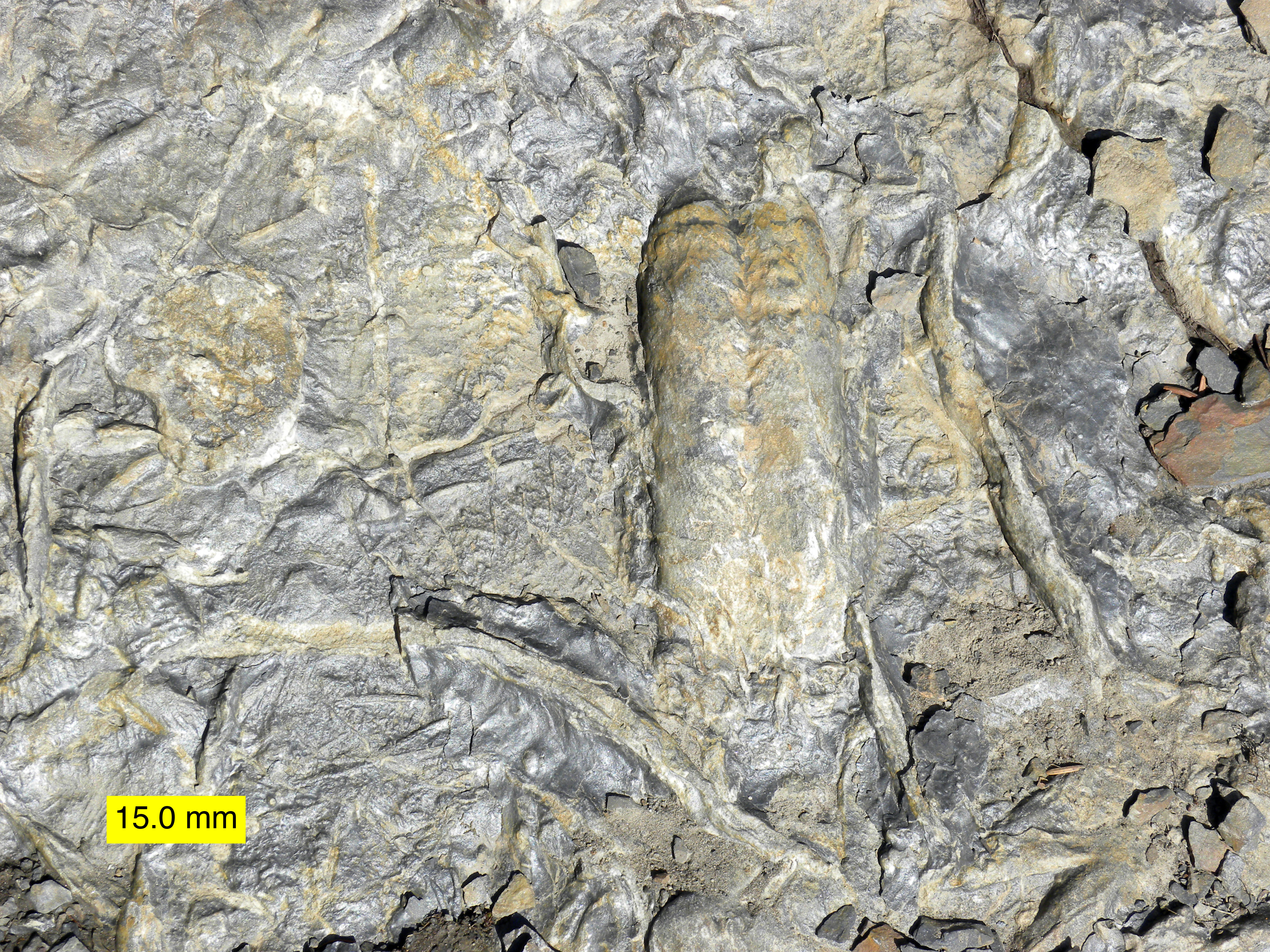 Rusophycus (presumably R. pectinatus, i.e. Cruziana pectinata sensu Seilacher) and other trace fossils from the Gog Group (Early Cambrian), Lake Louise, Alberta, Canada.